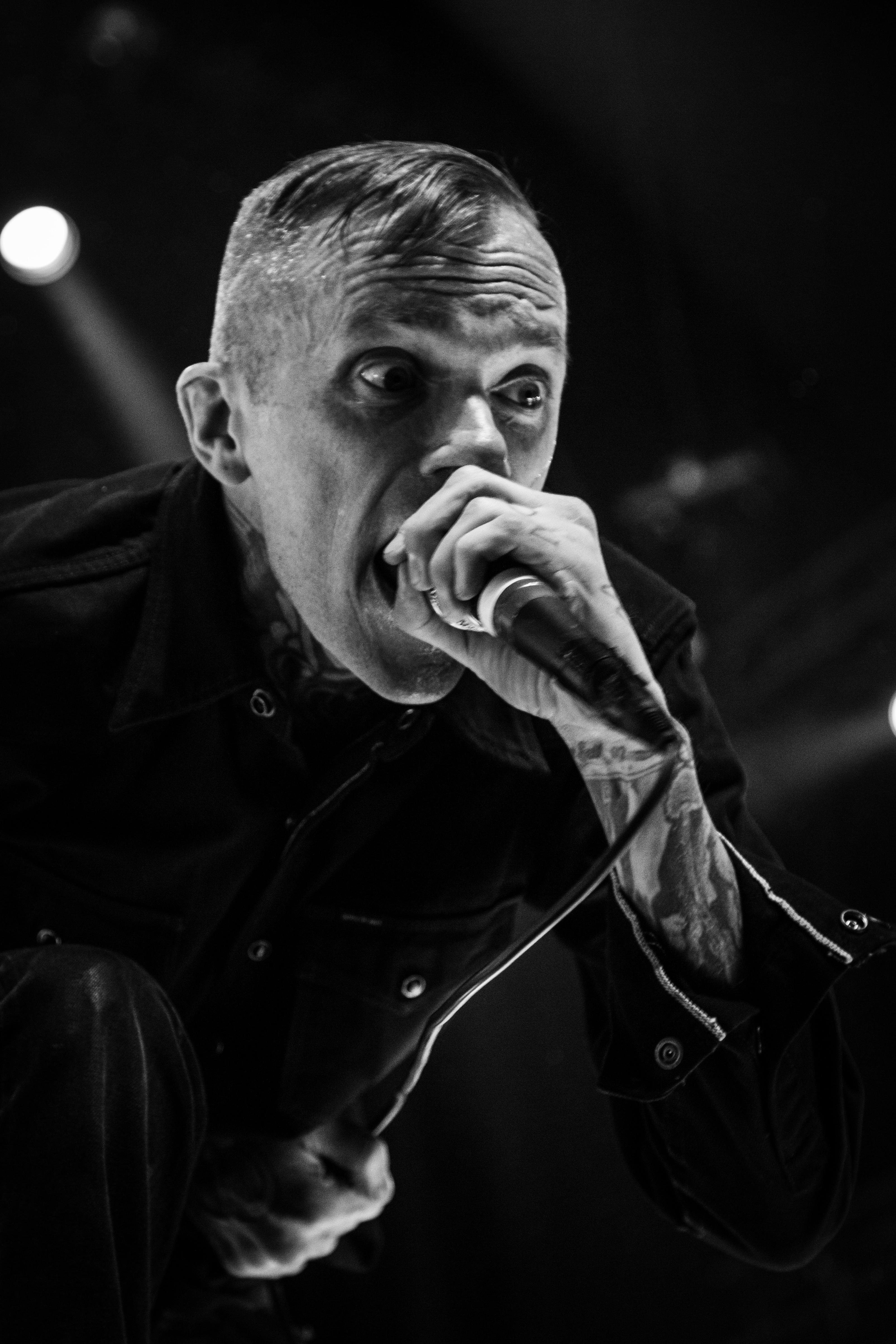 Converge performing live at Roadburn Festival 2018